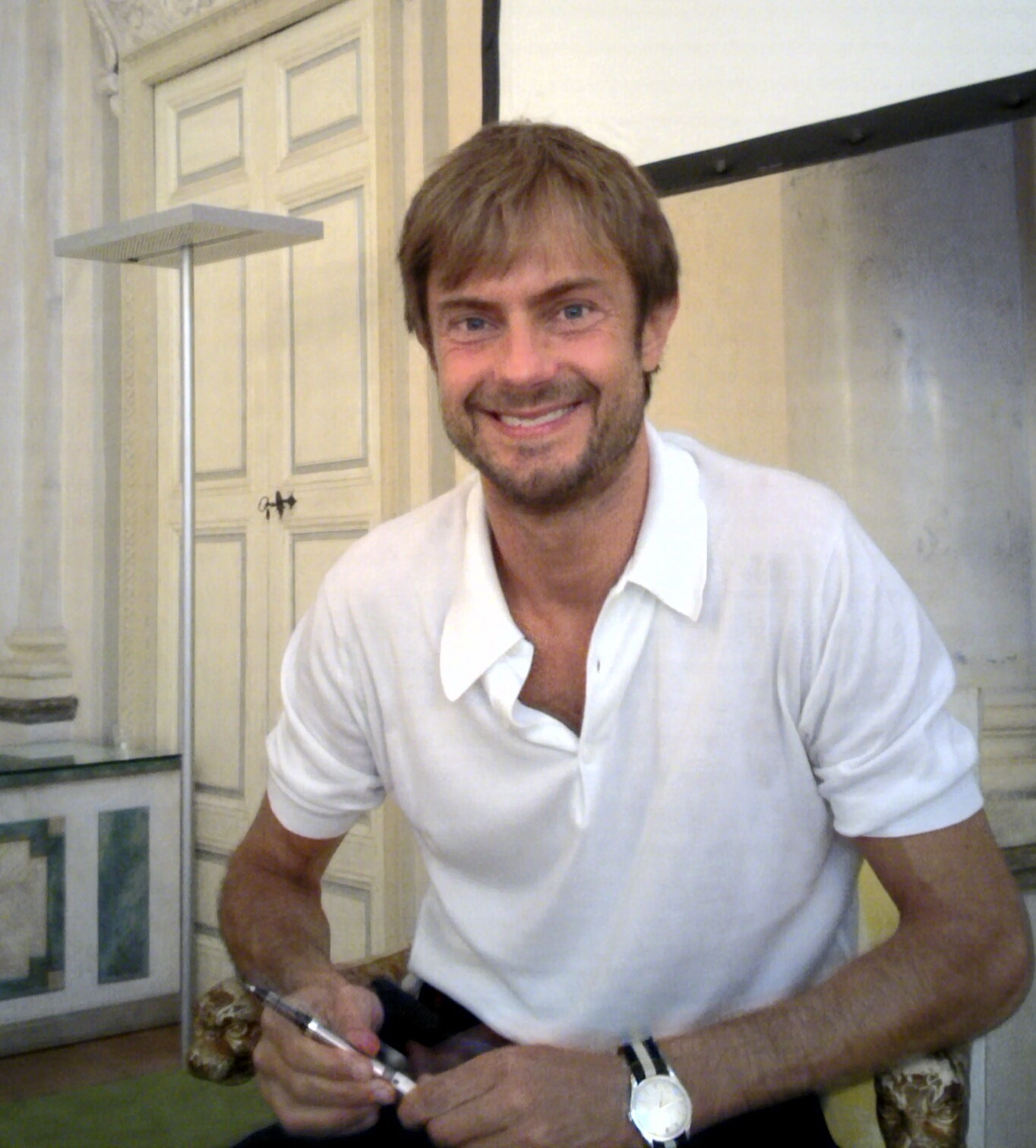 Italian entrepreneur co-founder of GROM